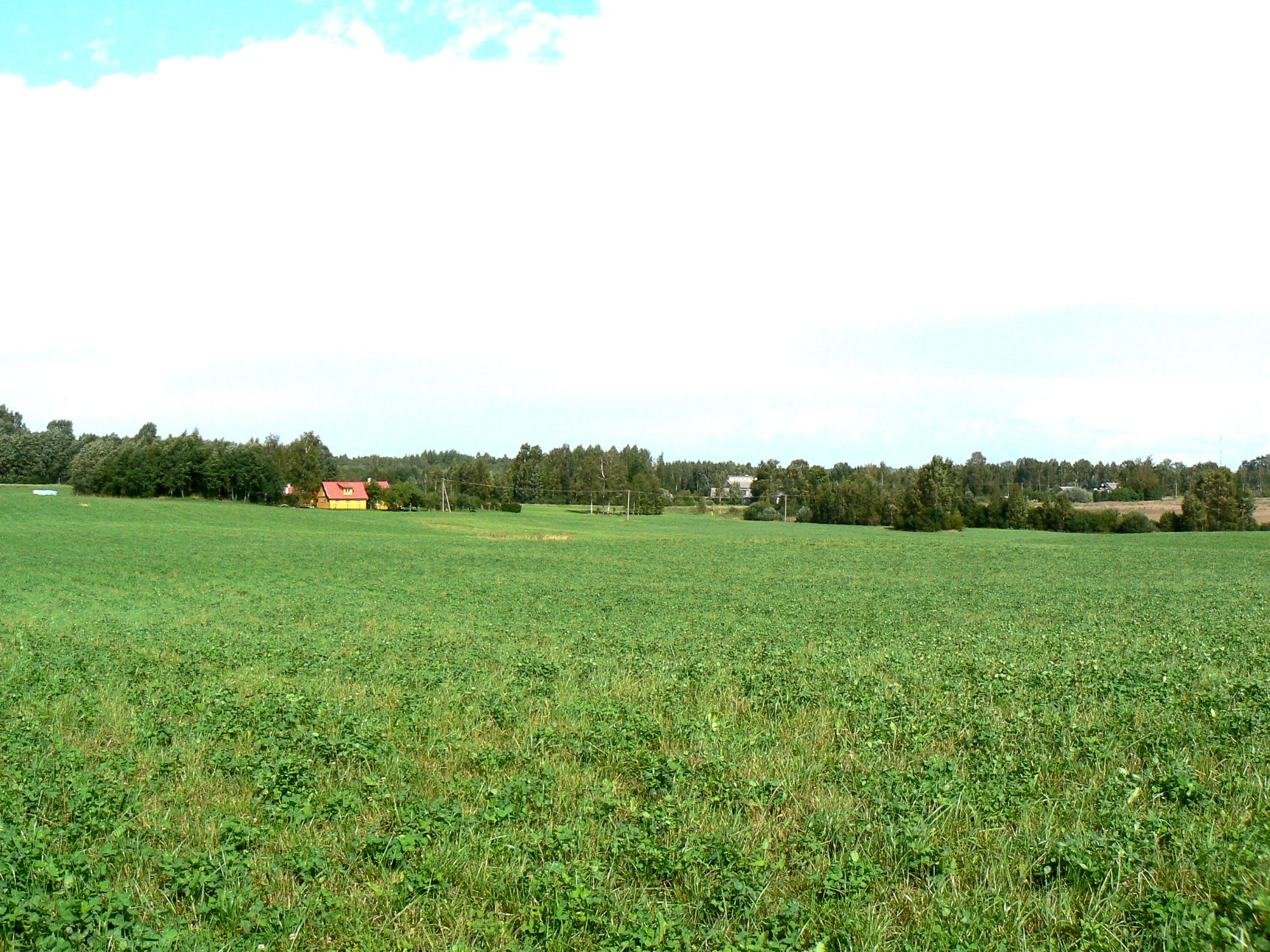 The view of the village Käo in Estonia